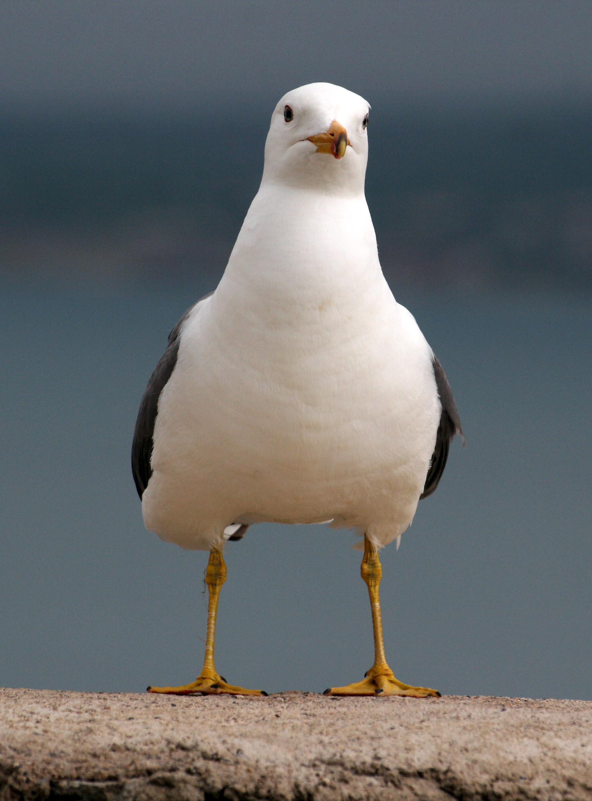 Armenian Gull standing, frontview, cropped